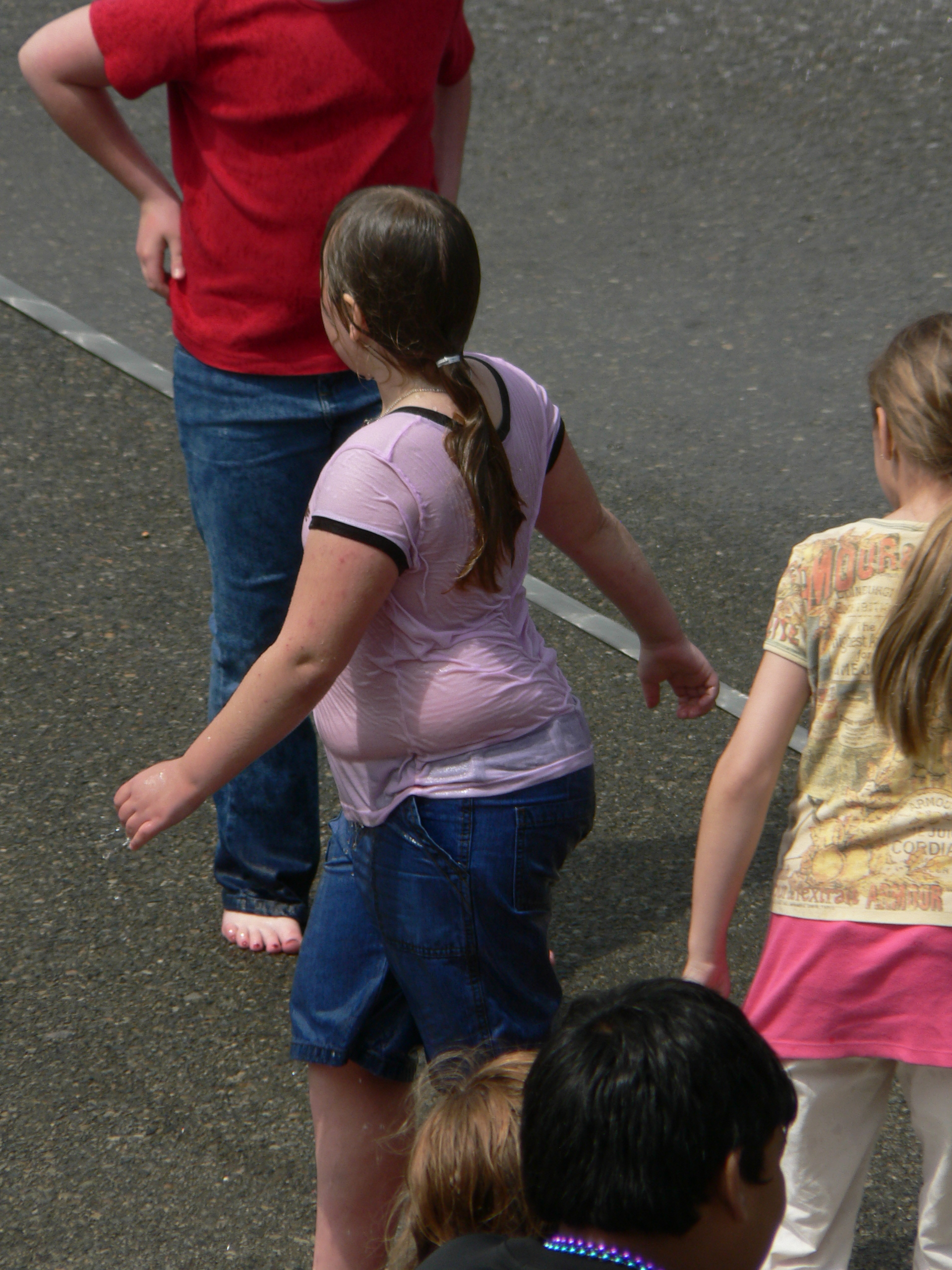 These children, playing in a public space, vary in their proportion of body fat.